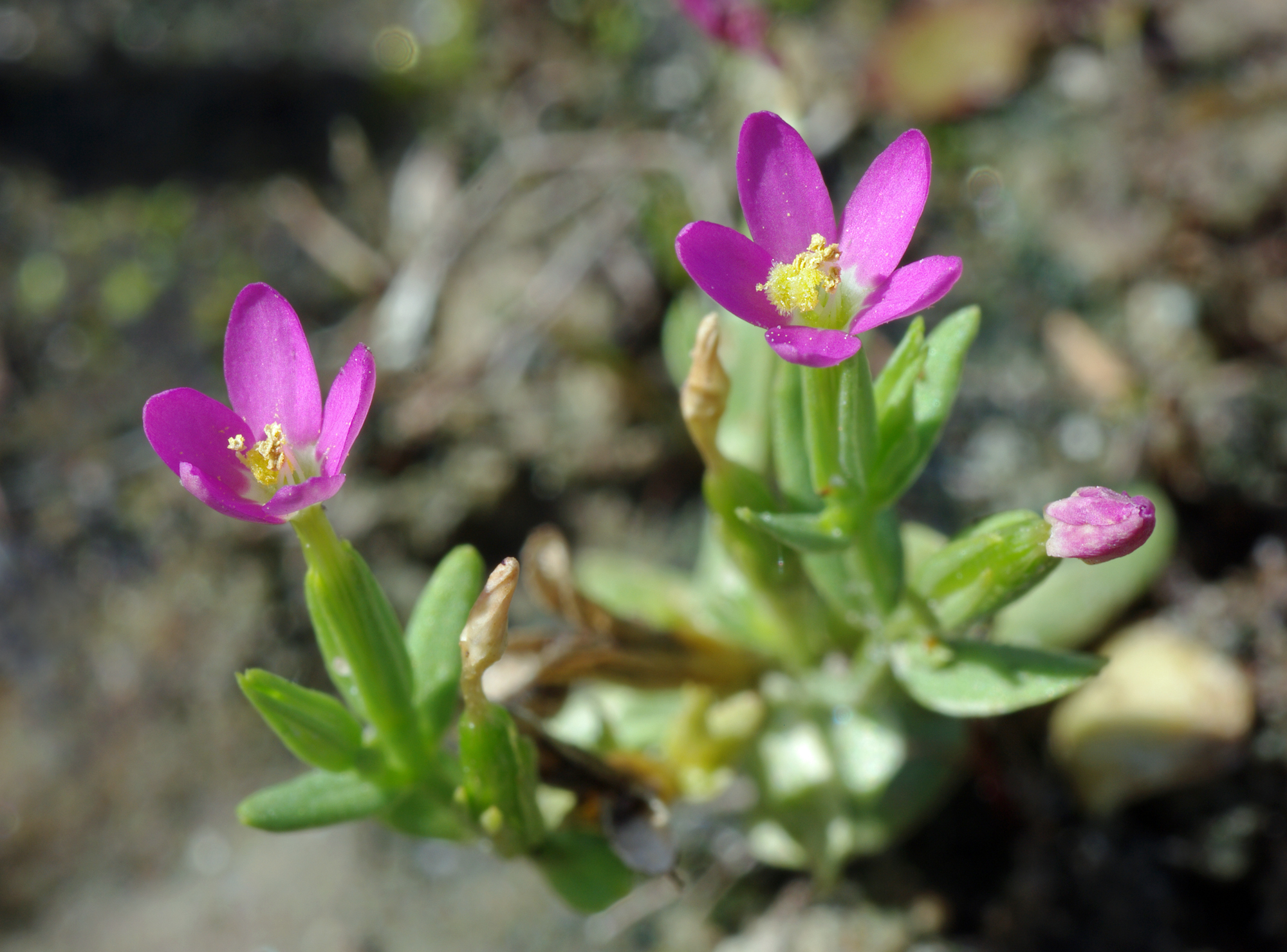 Close-up of flowering Centaurium pulchellum (Gentianaceae).